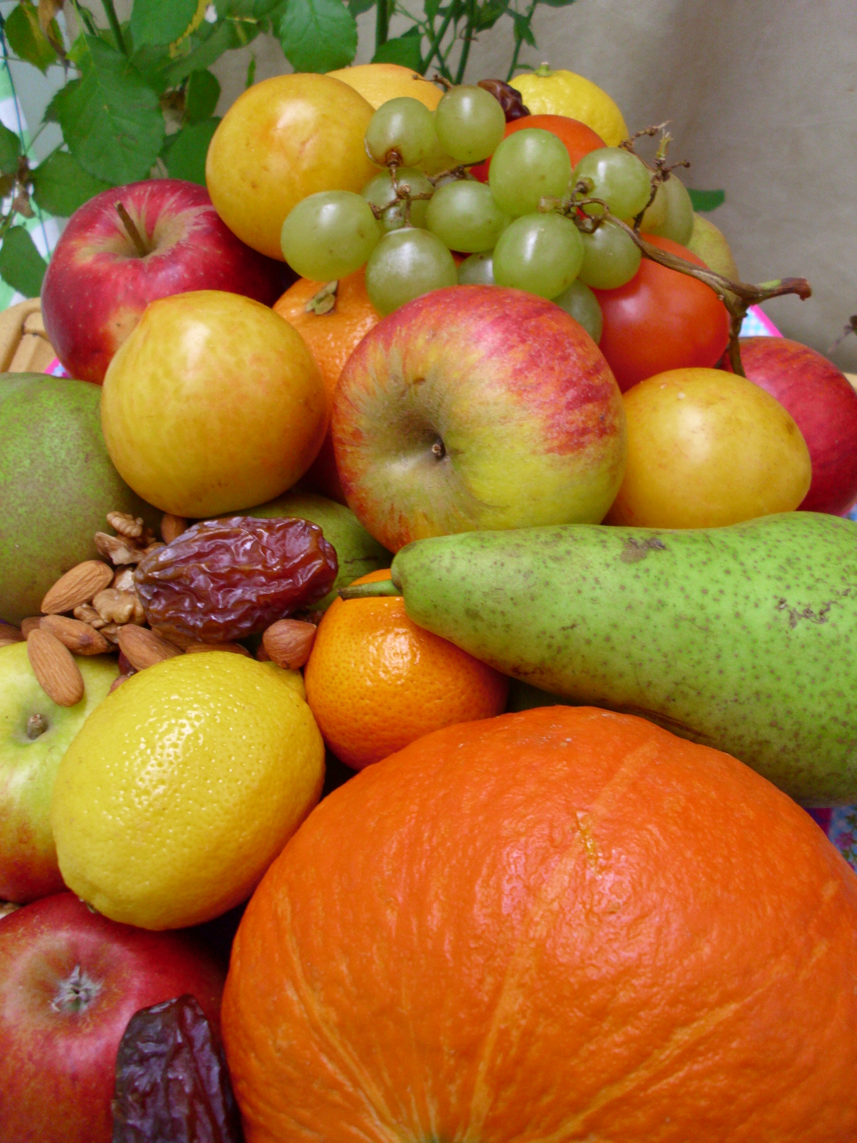 Image made in an attempt to show as many as possible elements of the fruitarian [1] food assortment on one picture. Related images: File:Natural foodstuff 003.JPG File:Natural foodstuff 002.JPG File:Natural foodstuff.JPG File:Natural foodstuff 006.JPG File:Natural foodstuff 00.jpg File:Natural foodstuff 008.JPG